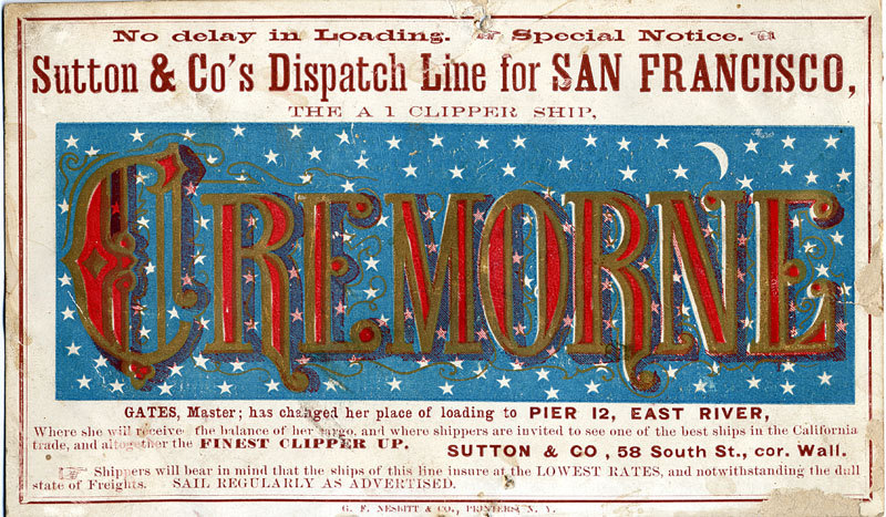 CREMORNE Clipper ship sailing card Gates, master